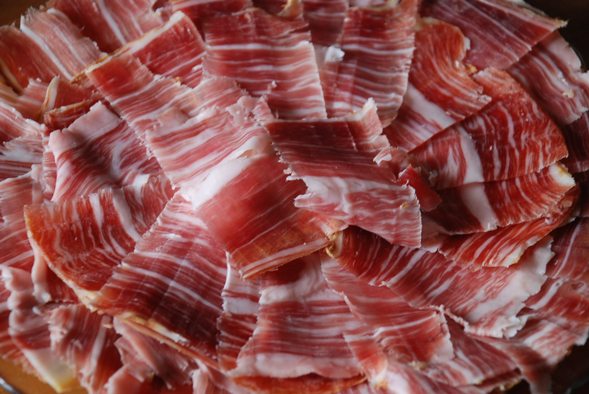 Ham of Guijuelo (Salamanca, Castile and León).